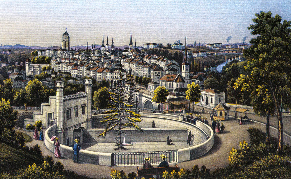 Bern, view of the Bärengraben and the old town around 1880.